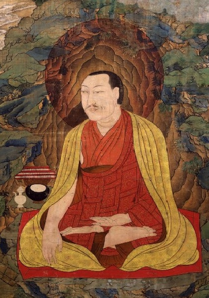 Puchungwa Zhonnu Gyeltsen (b.1031 - d.1106), famous eleventh century Tibetan buddhist scholar.